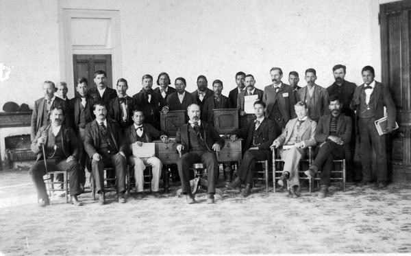 A photography of the Choctaw Nation of Oklahoma senate.